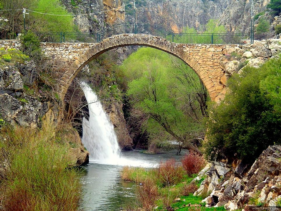 Ancient bridge — reportedly Phrygian near Karahallı, Uşak Province, Turkey.